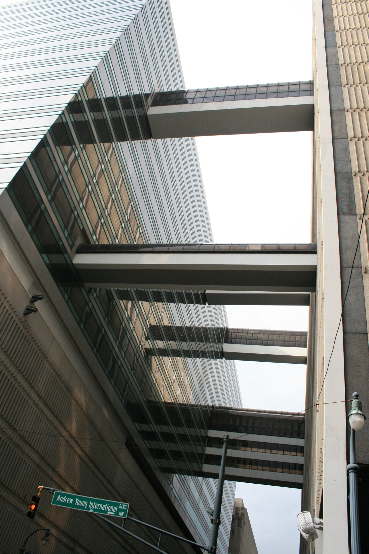 View of the skyways over Spring St in downtown Atlanta, Georgia, viewed from Big Heart Park, less than 4 1/2 hours before they were hit by a tornado.